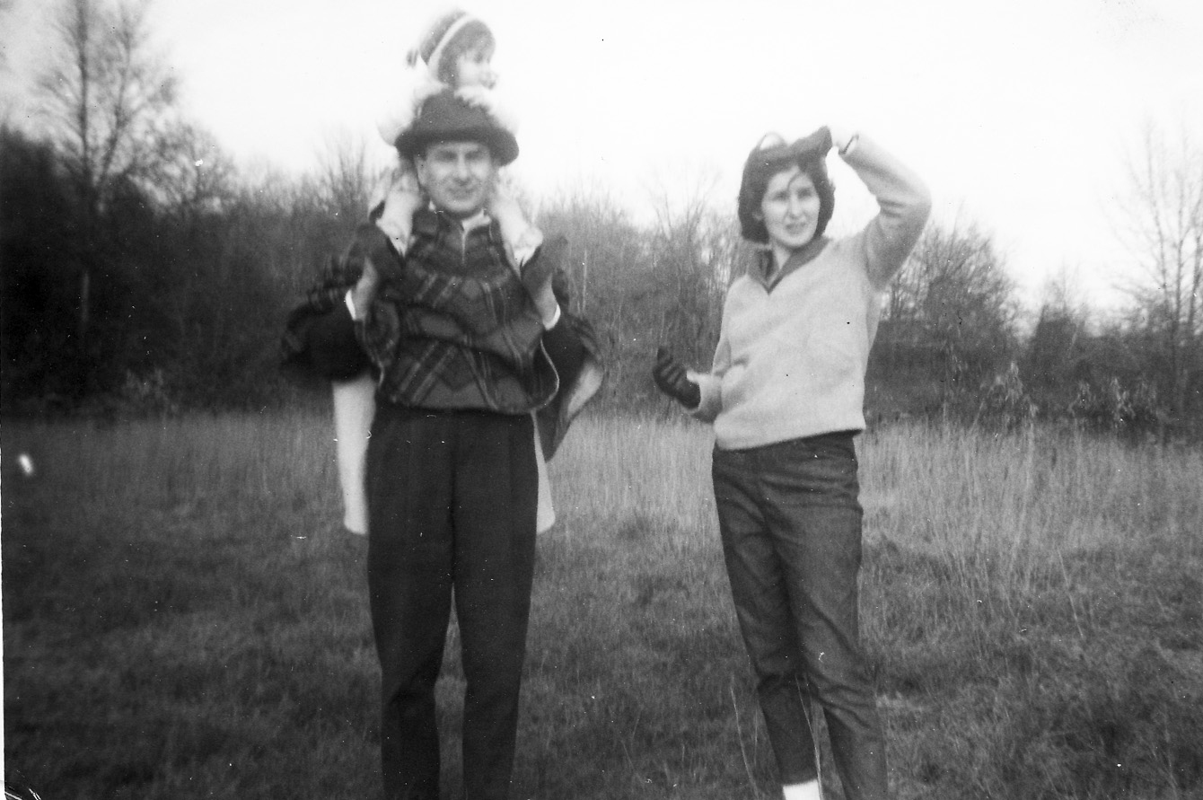 1962 photo of Antonio Barolini, Helen Barolini and daughter Nicoletta Barolini in Croton on Hudson NY